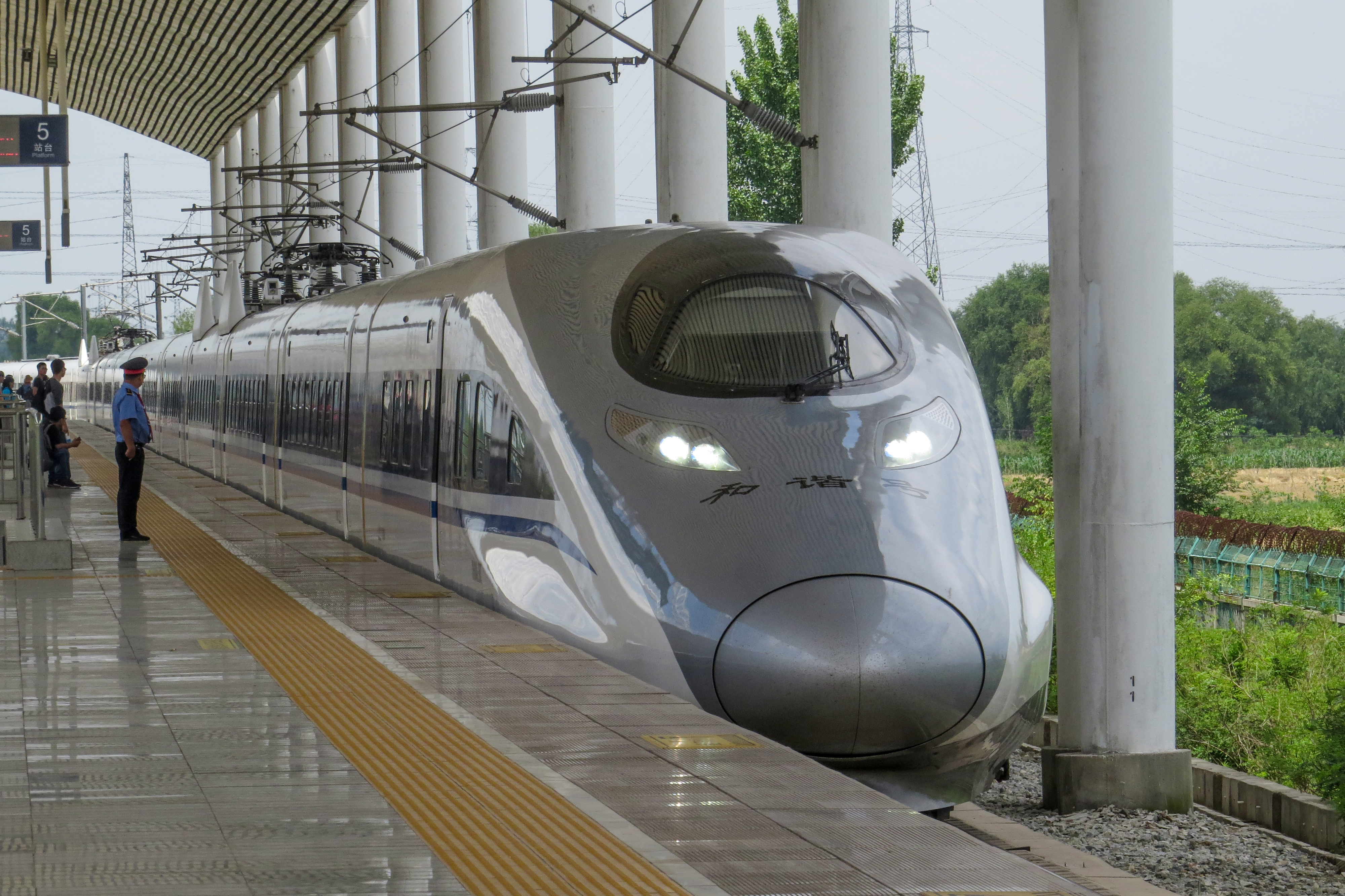 G662 from Xi'anbei to Beijingxi.